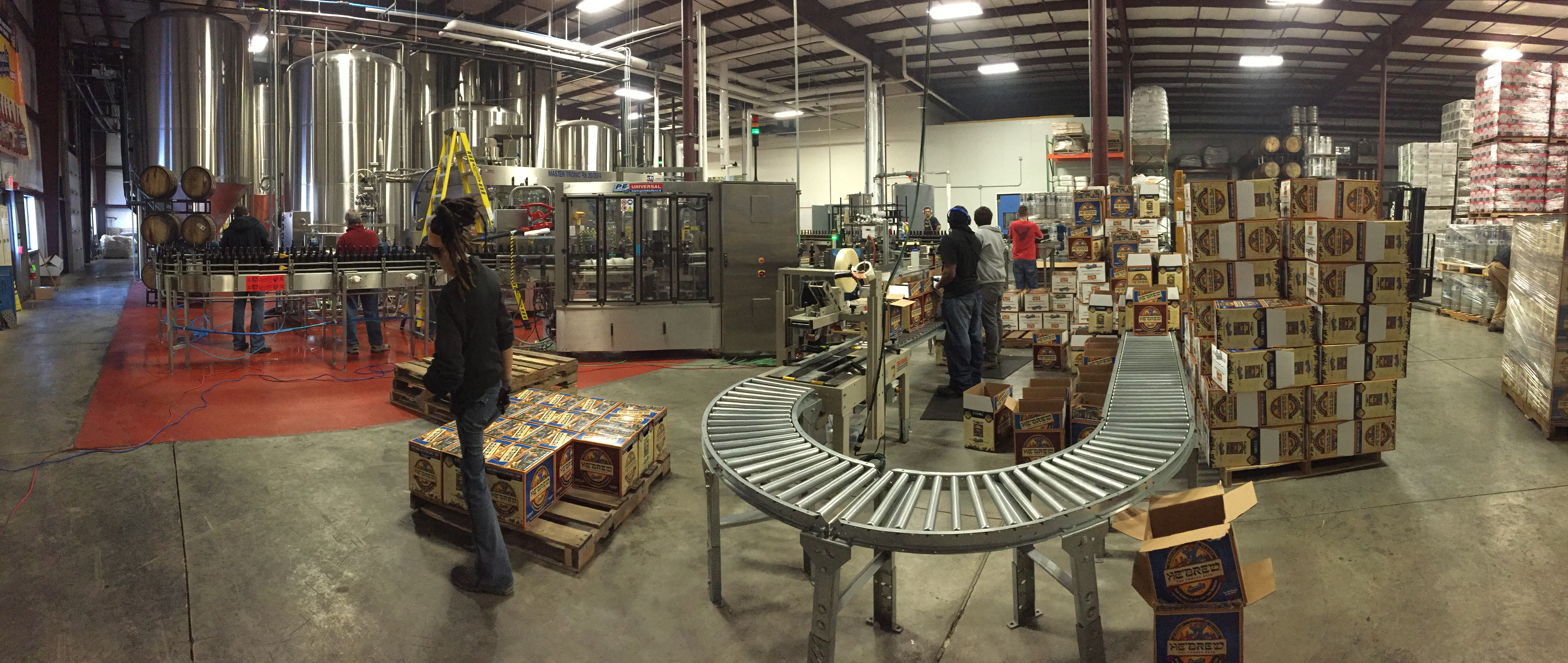 Shmaltz Brewing Company in a panorama photo taken day of Funky Jewbelation '15 bottling